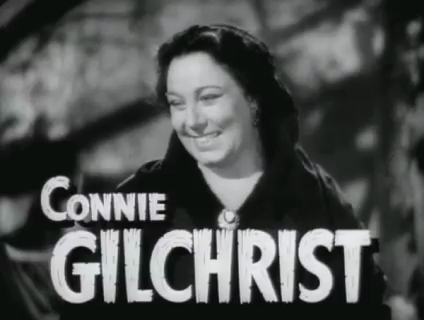 Connie Gilchrist in Apache Trail, by Richard Thorpe (1942)